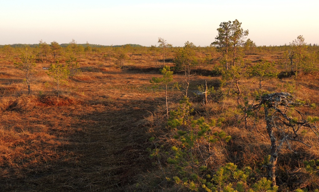 Rdeysky Nature Reserve